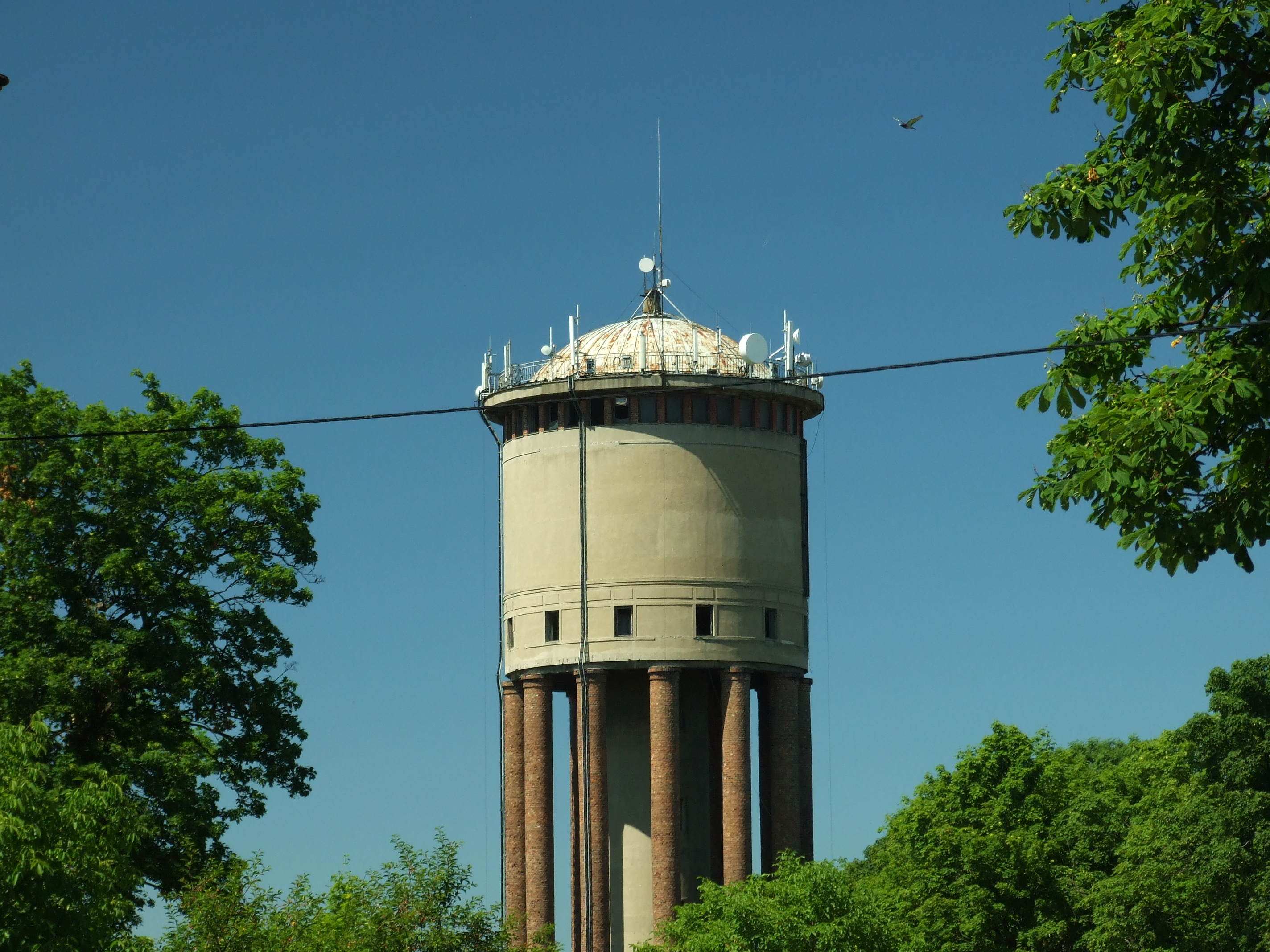 A water tower near Tczew main train station, Pomeranian voivodeship, Poland